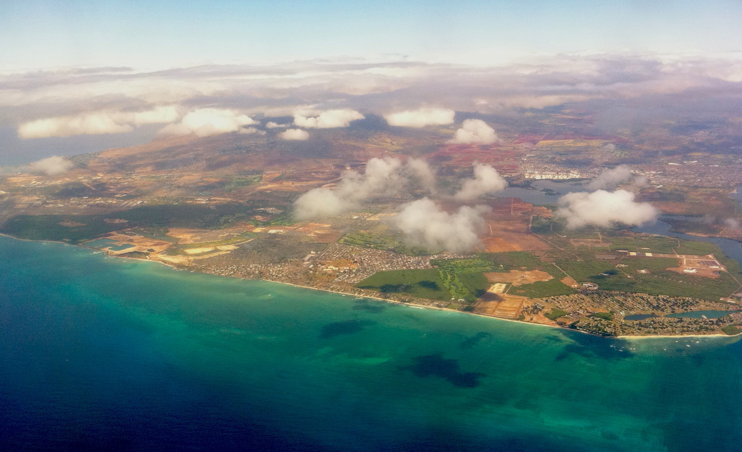 Aerial view of Ewa Beach, Oahu, Hawaii